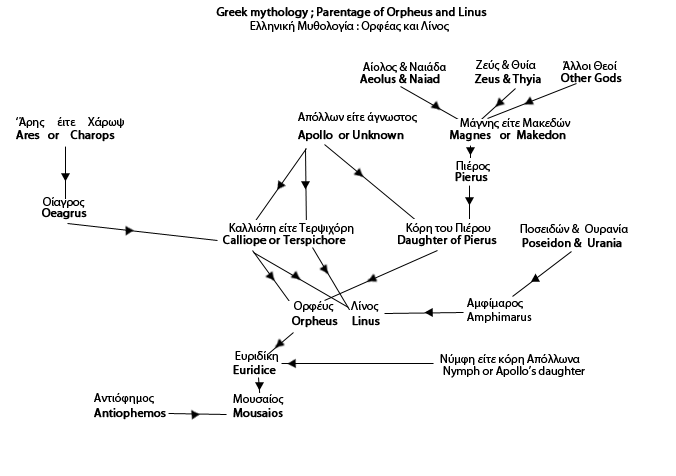 Greek mythology ; Parentage of Orpheus and Linus, Genealogical chart